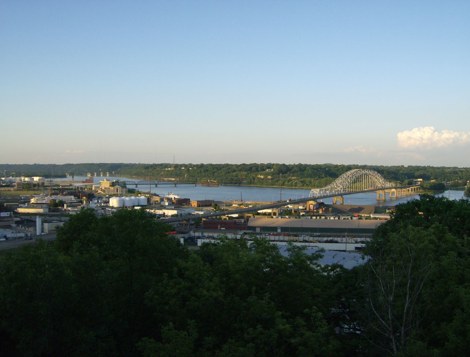 Looking at the three bridges that span the Mississippi River at Dubuque, Iowa. They are the US 61 Bridge between Iowa and Wisconsin (L), the Chicago Northern Train Bridge (C) and the US 20 Julien Dubuque Bridge (R). Both the train bridge and Julien Dubuque Bridge link Iowa and Illinois.